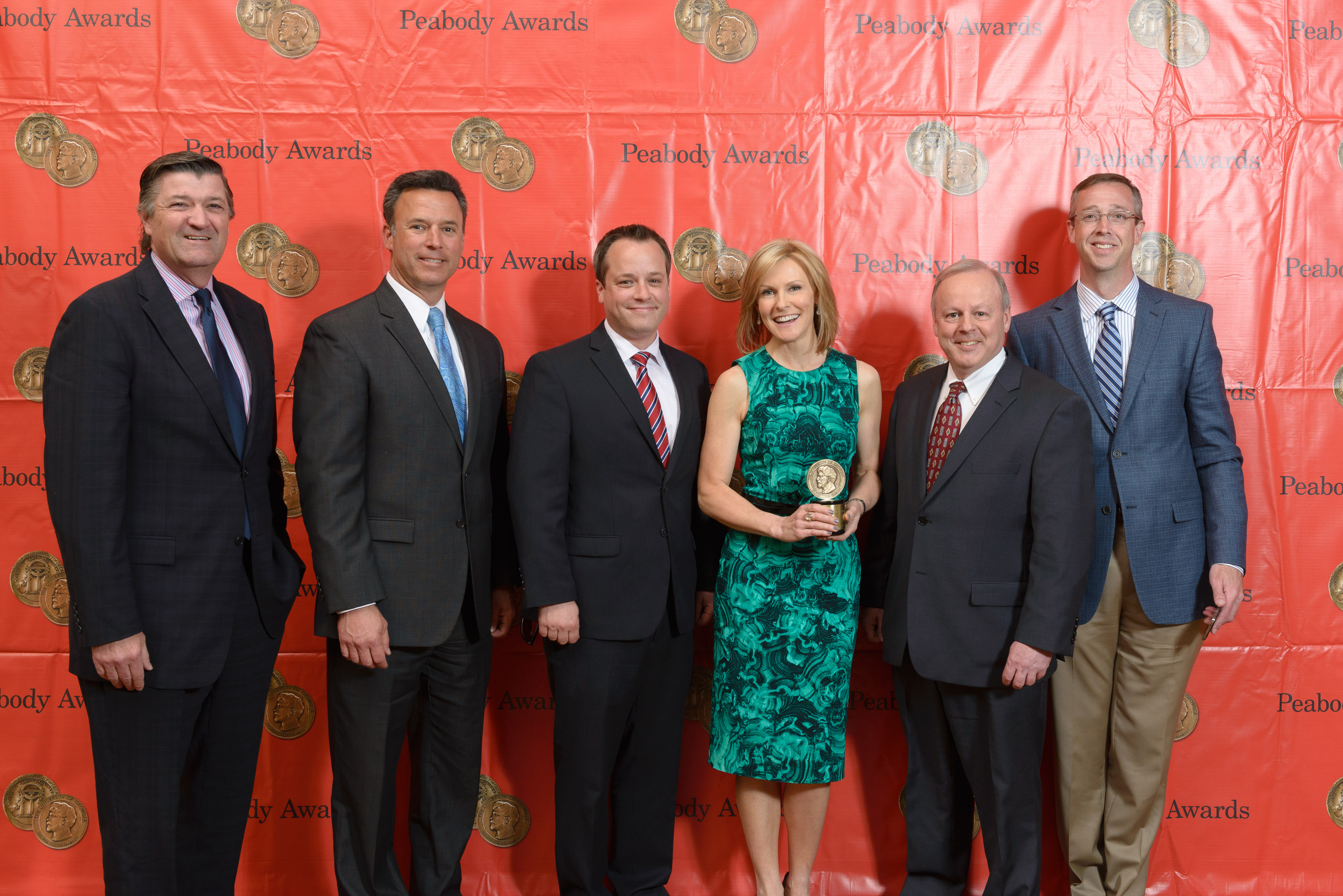 Bill Flaherty, Jonathan Elias, Joe Mathieu, Lisa Hughes, Peter Casey and Jon MacLean at the 73rd Annual Peabody Awards for WBZ's Coverage of the Boston Marathon Bombings.